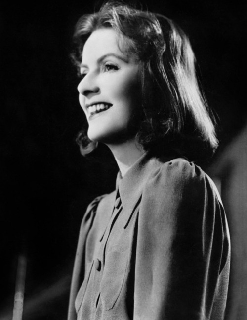 Greta Garbo in a publicity still for Ninotchka